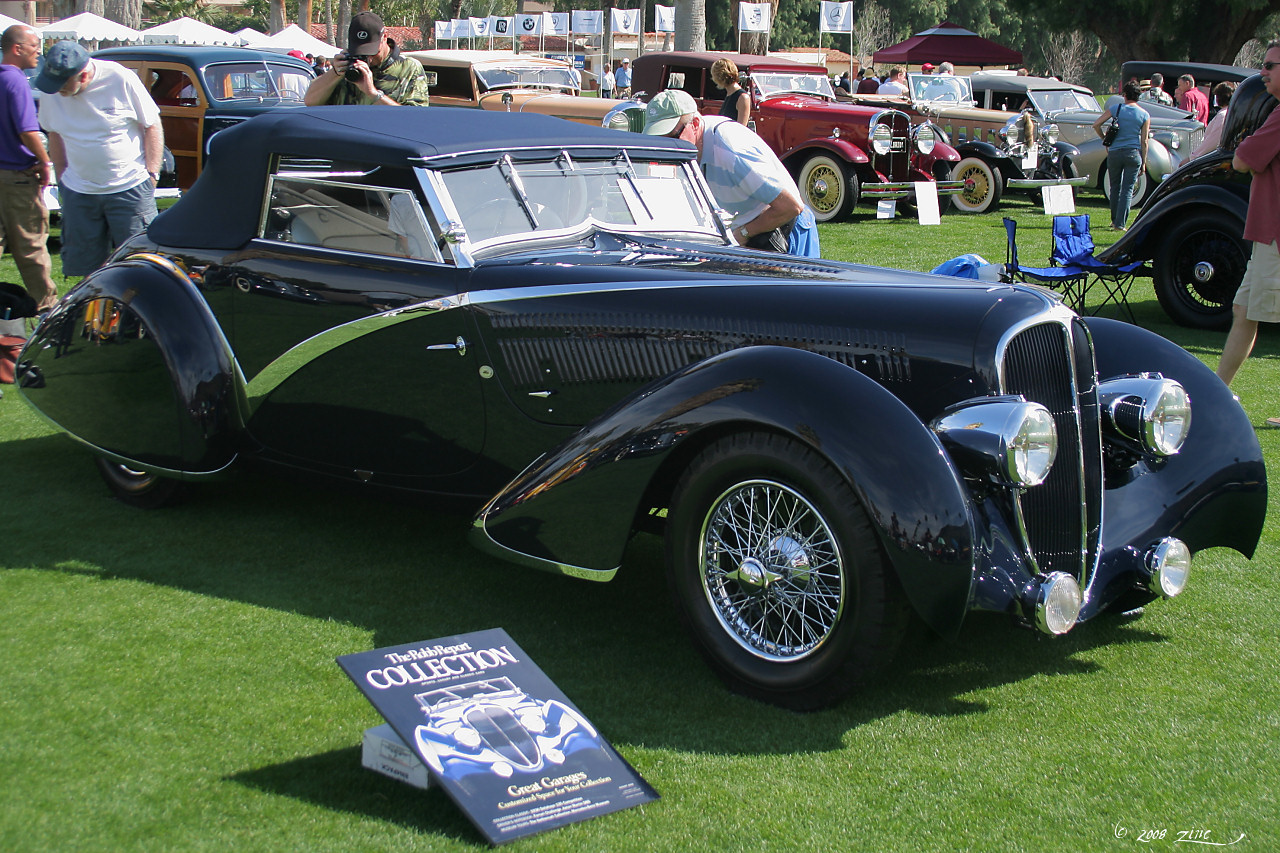 1936 Delahaye 135 Competition drophead coupé by Figoni & Falaschi, chassis and engine no 46864Newport Beach, CA, Concours d'Elegance, Strawberry Farms, Oct 9, 2007. 1712RK4